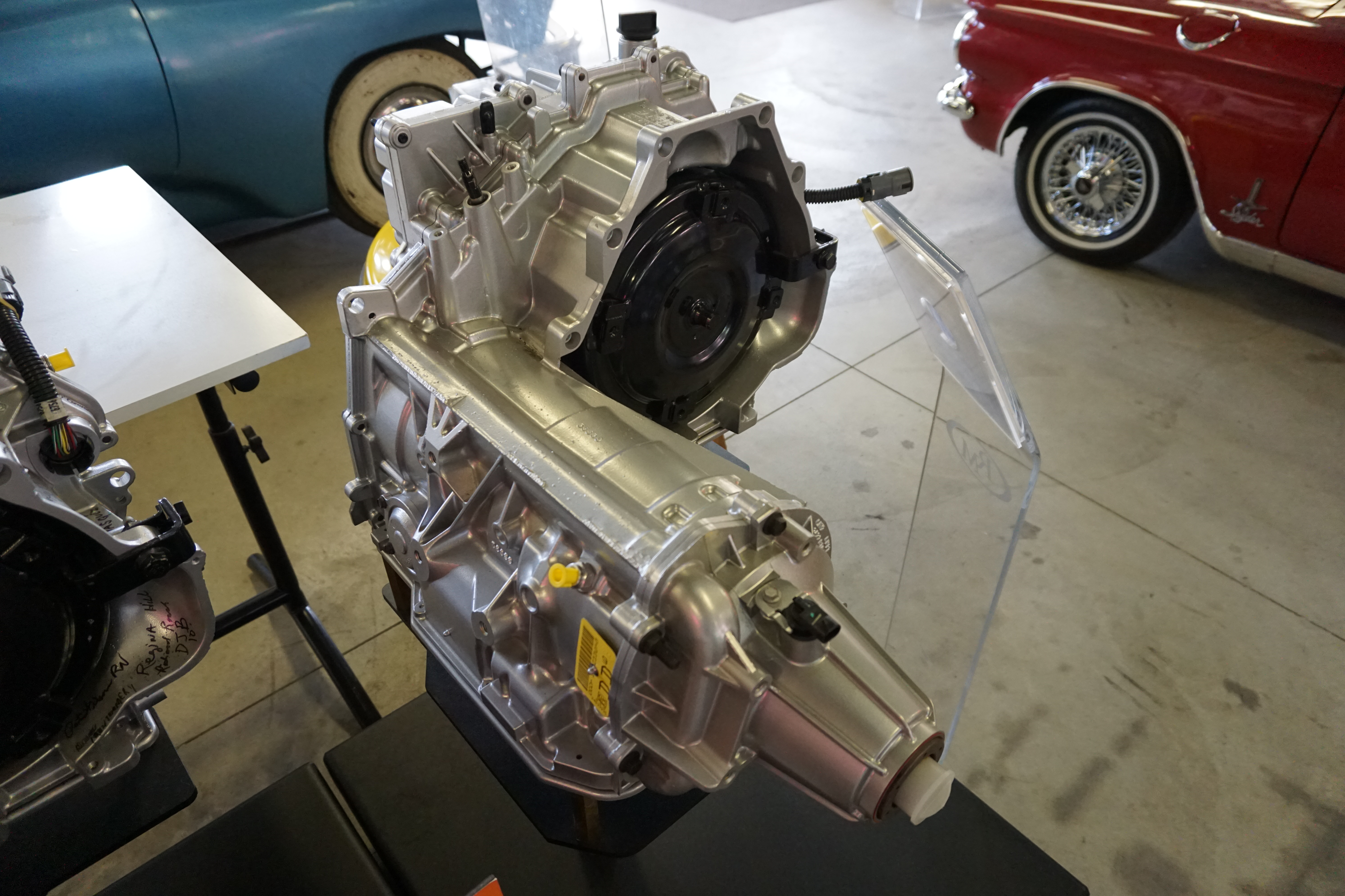 A 2010 Hydra-Matic transmission at the Ypsilanti Automotive Heritage Museum in Ypsilanti, Michigan (United States).